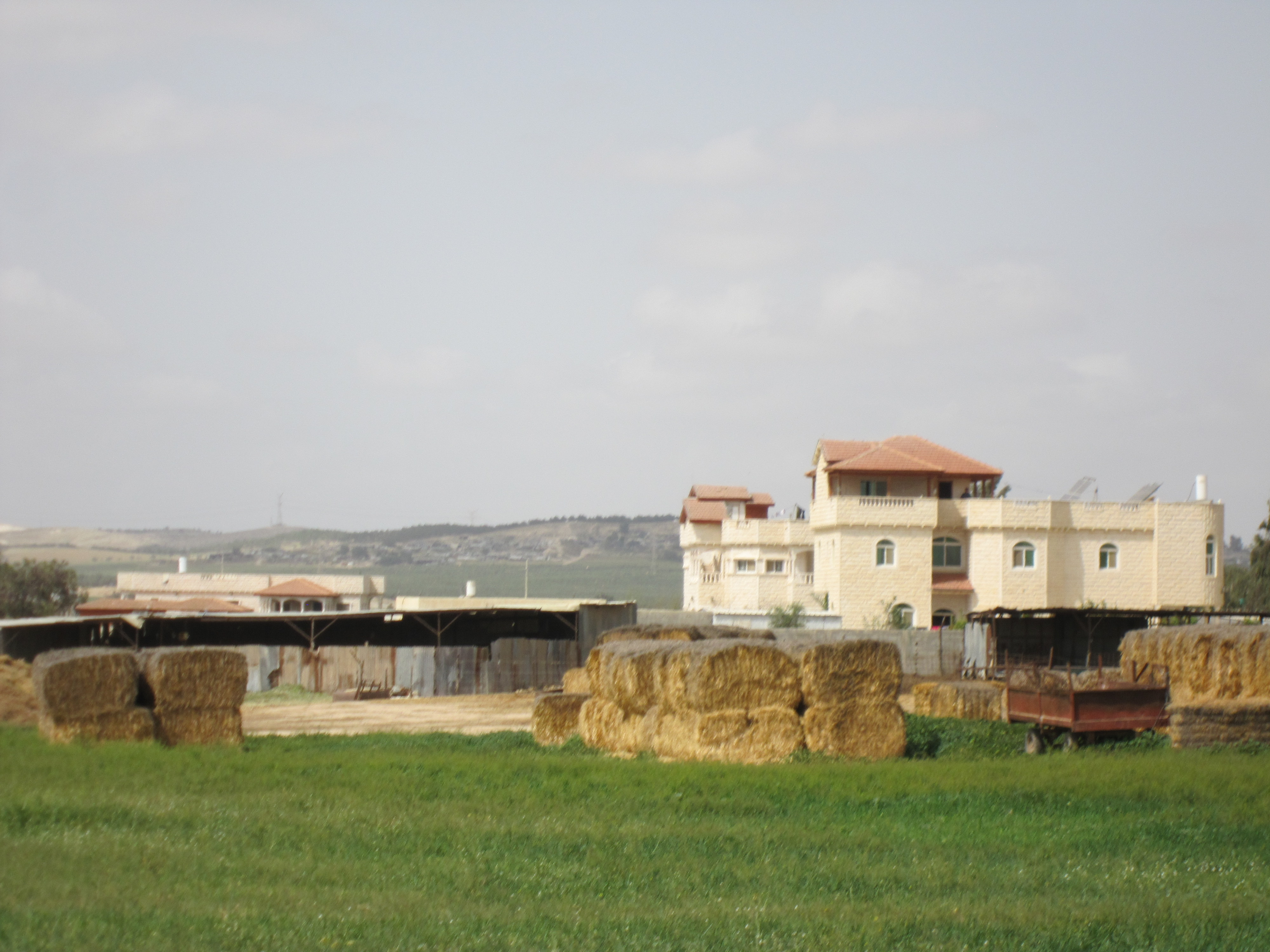 Umm Batin